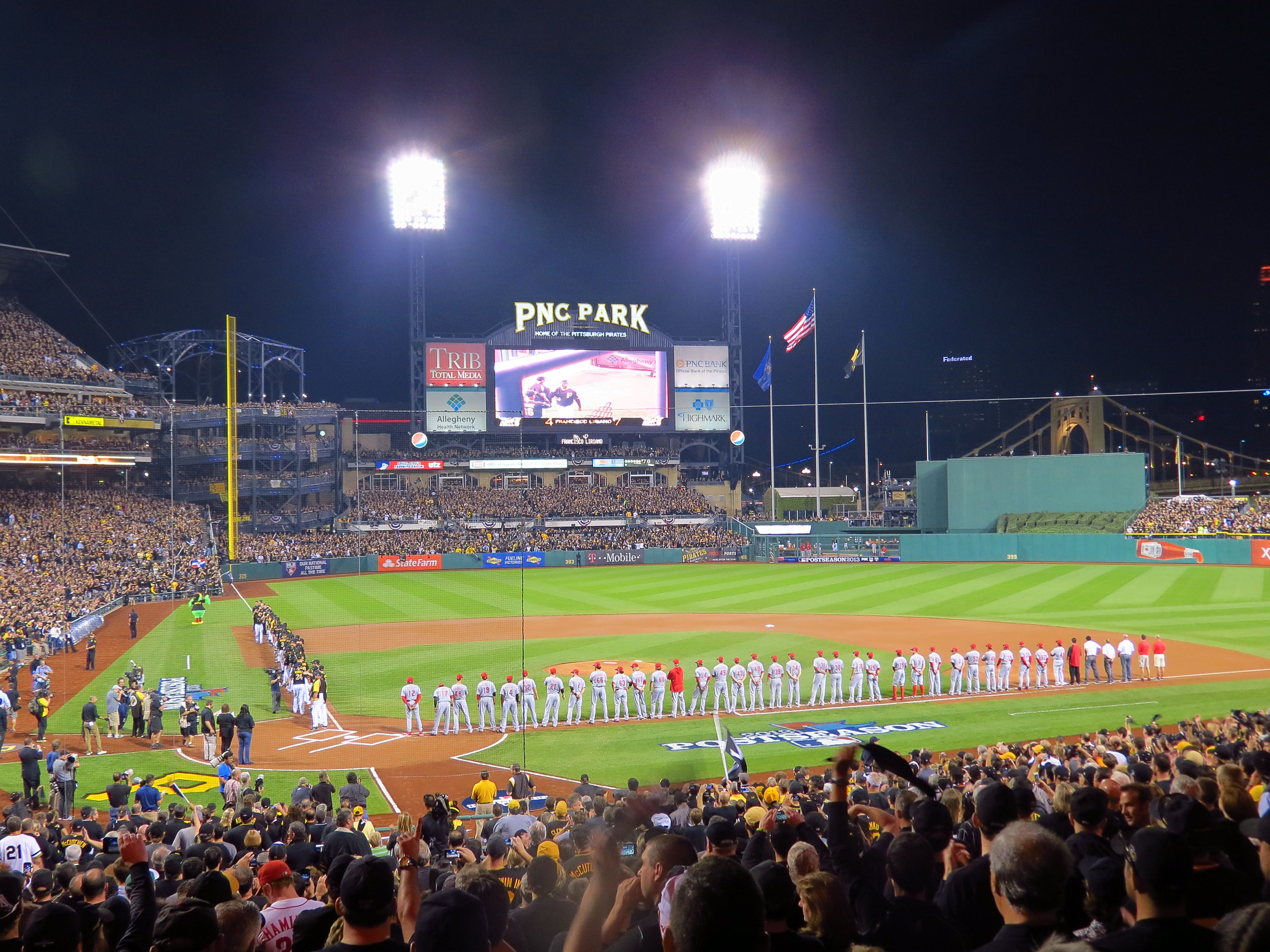 2013 National League Wild Card Game Cincinnati Reds at Pittsburgh Pirates